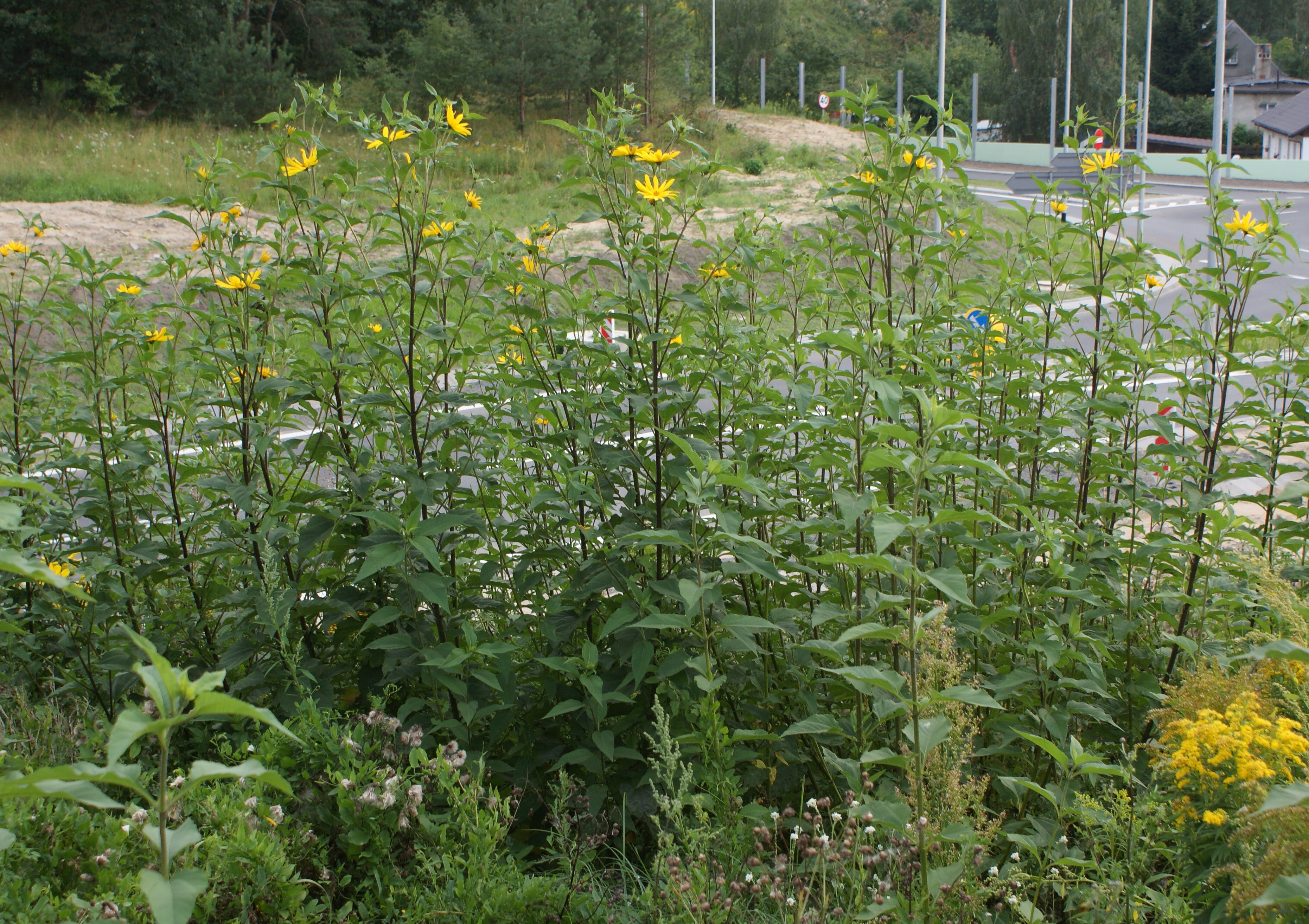 Helianthus tuberosus at roadside in Szczecin Podjuchy (NW Poland)